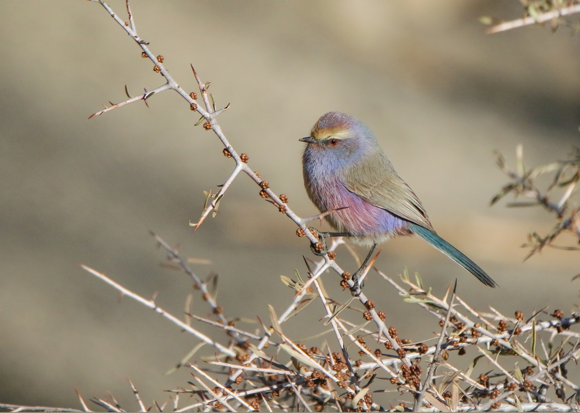 White-browed Tit Warbler (Leptopoecile sophiae) captured at Borit, Gojal, Gilgit-Baltistan, Pakistan with Canon EOS 7D Mark II